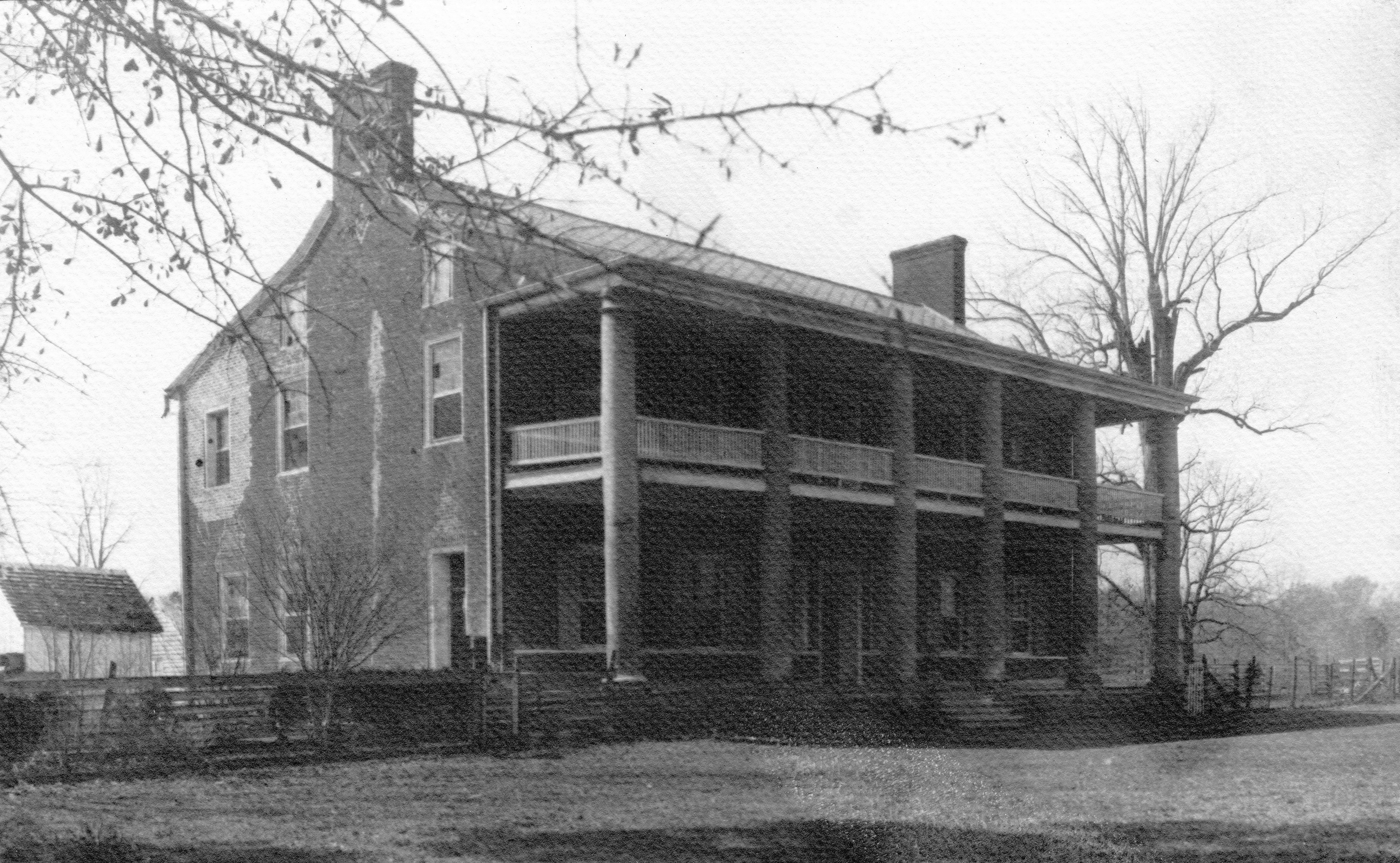 Collection: Works Progress Administration Scrapbooks, 1936-1941 Call number: Series 443 System ID: 73473. Link to the catalog Pictorial History of South Mississippi. Please see our profile page for information on ordering. Scanned as TIFF in 2013/05/13 by MDAH. Credit: Courtesy of the Mississippi Department of Archives and History